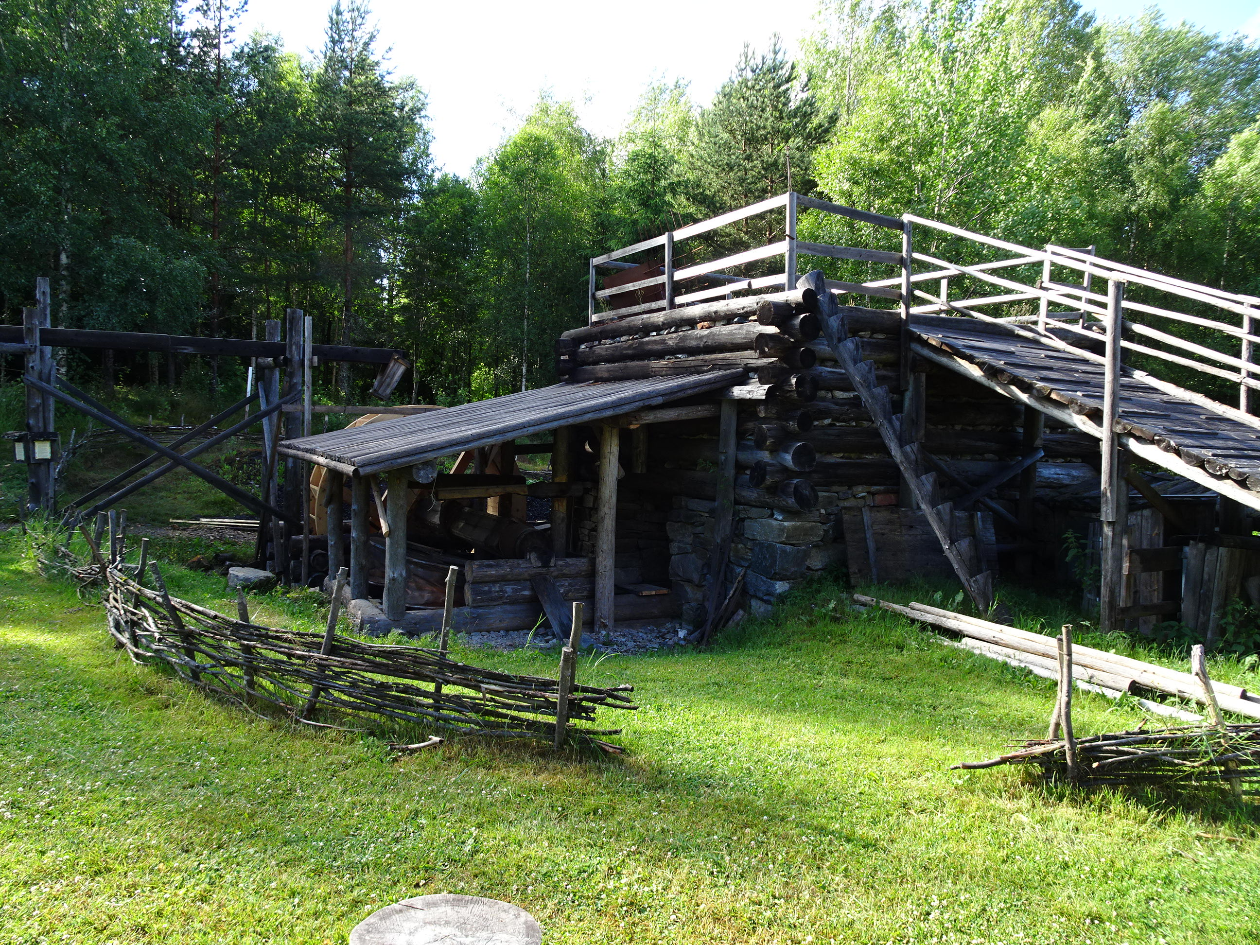 The Nya Lapphyttan blast furnace built as a functioning replica of a medieval blast furnace in Norberg, Sweden